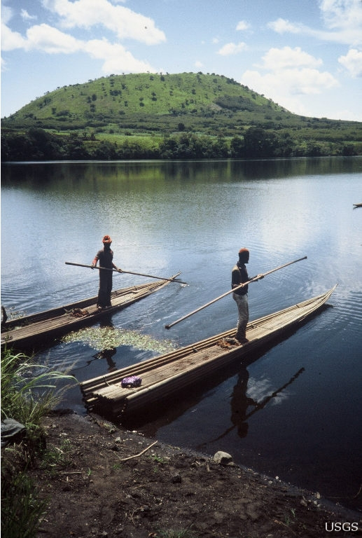 In 1986, Lake Nyos, in the volcanic region of Cameroon, released a cloud of CO2 into the atmosphere, killing 1,700 people and 3,500 livestock in nearby towns and villages. Since then, engineers have been artificially removing the gas from the lake through piping. A small CO2 cloud from Lake Monoun killed 37 people in 1984.